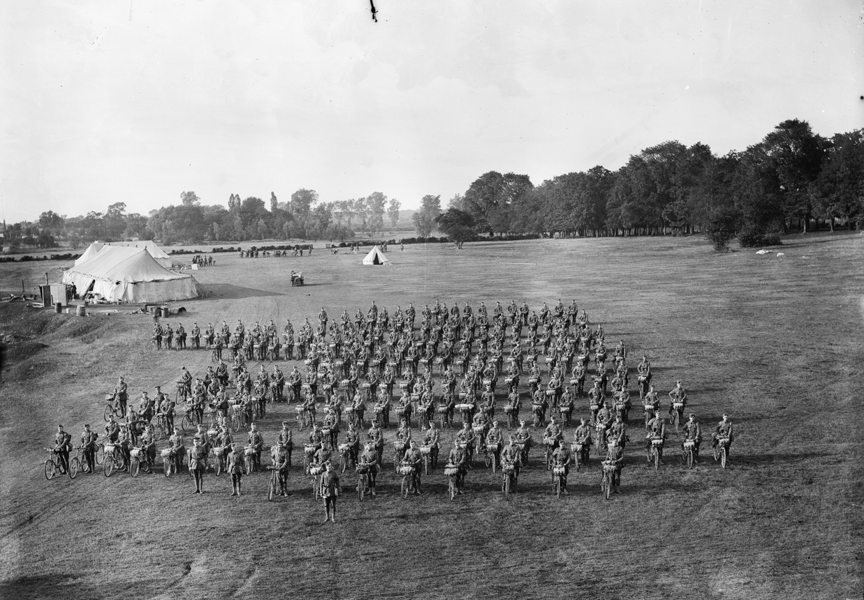 View of a bicycle company, Bury St Edmunds, Suffolk. Image courtesy of the Bury St Edmunds Past and Present Society, Spanton Jarman Collection, Bury St Edmunds, Suffolk.